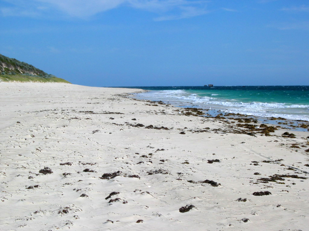 Looking south along beach at Alkimos, Western Australia, a northern suburb of Perth, towards the Alkimos wreck